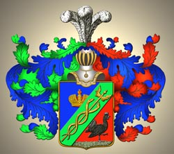 Hahn family Russian coat of arms